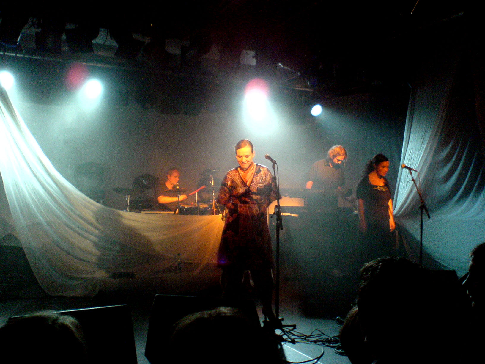 Norwegian band Bel Canto in concert in 2006